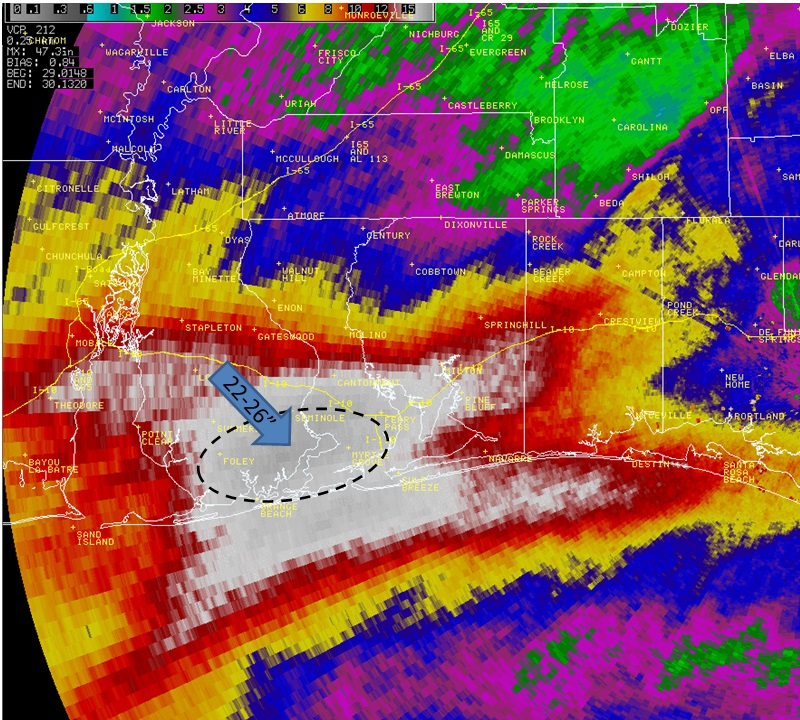 Radar estimated event rainfall totals (in.) between 848 PM CDT Mon., 28 April – 920 AM CDT Wed., 30 April.